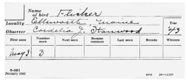 Card reporting sighting of a migratory bird, Flicker, observed by Cordelia Stanwood in 1943